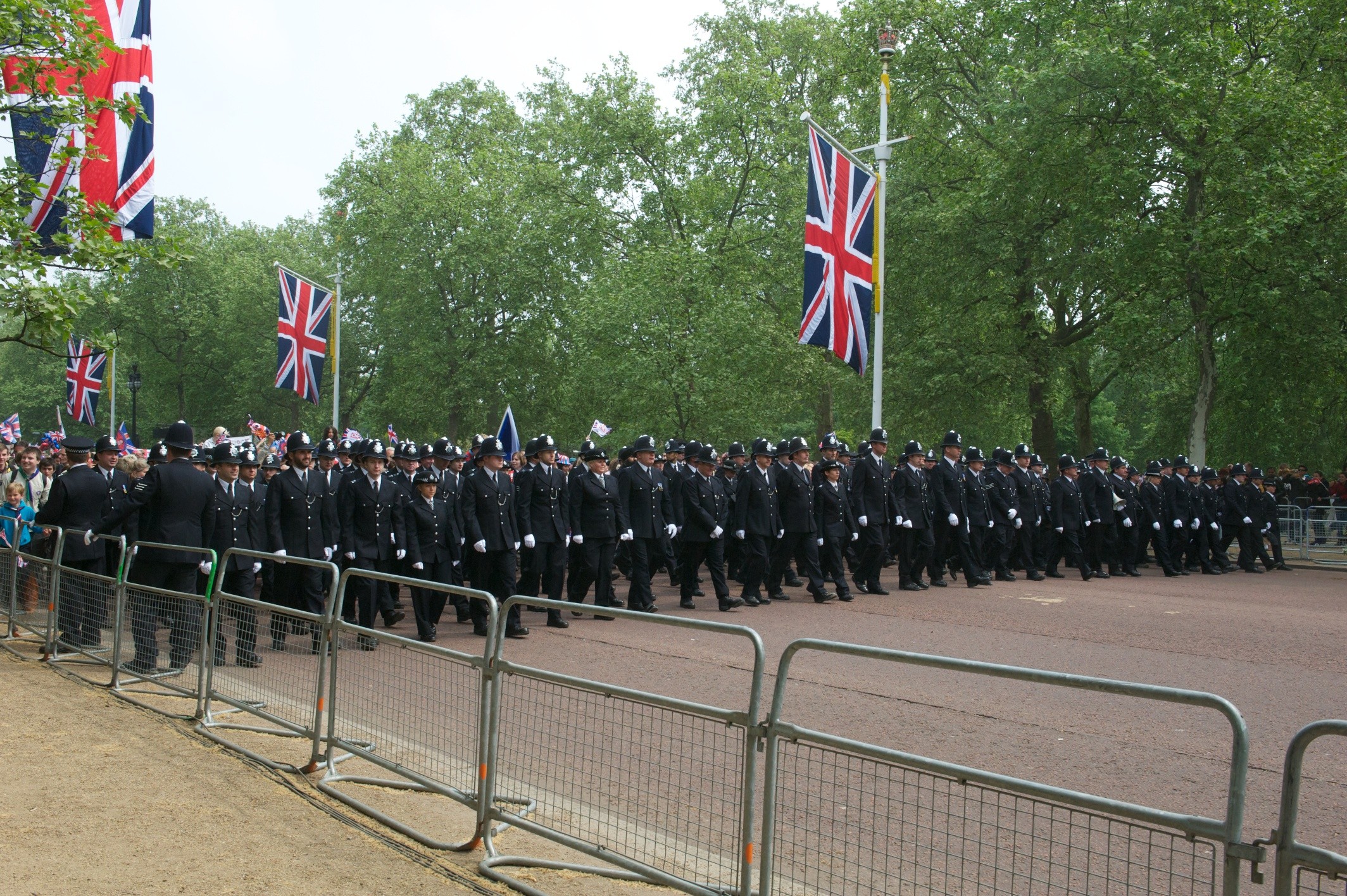 Line of police officers in The Mall, London, England controlling the crowds on 29 April 2011 at the Royal Wedding.